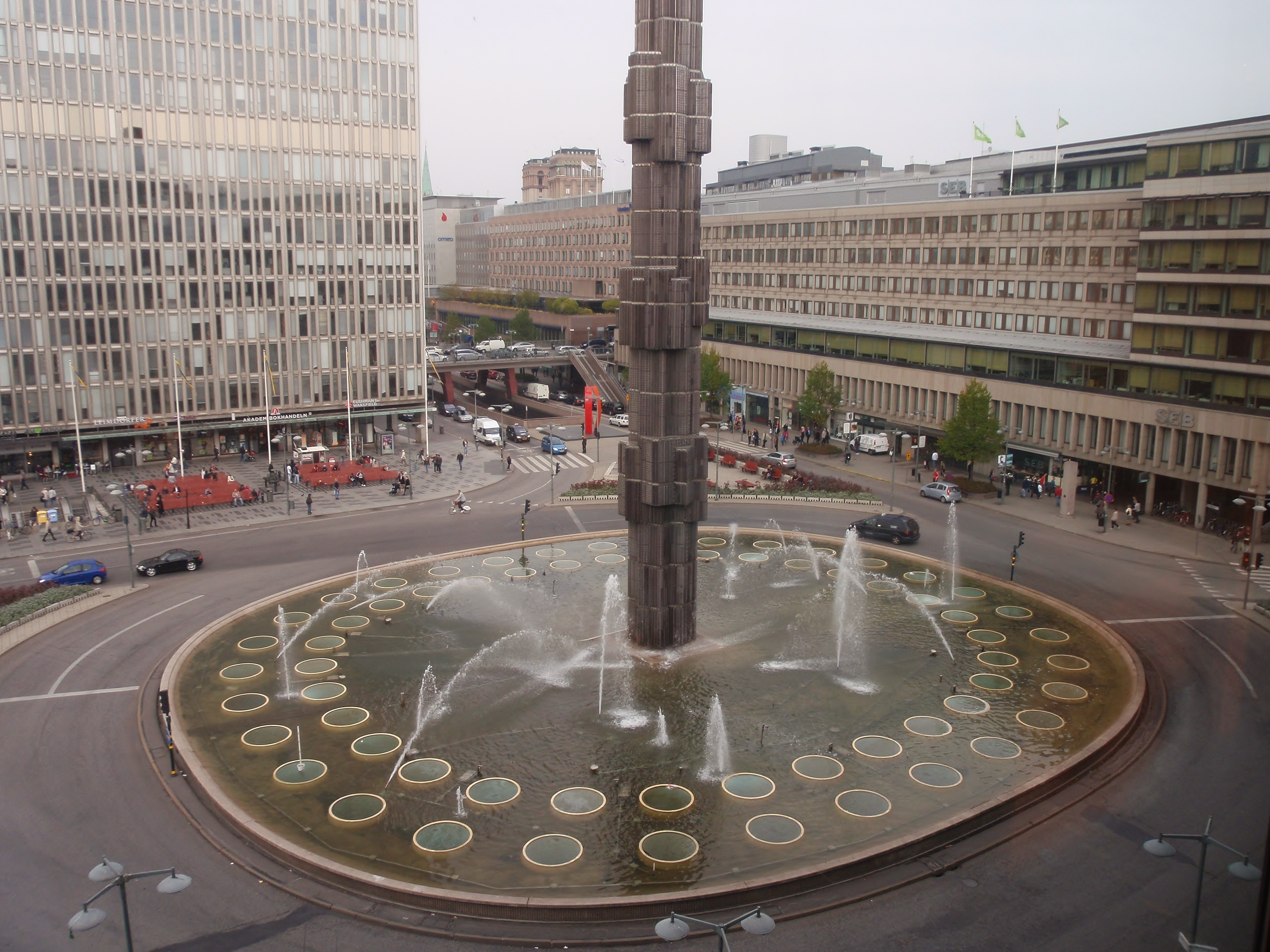 Architect: David Helldén Built in: 1958-1960 Sergels torg is a square in downtown Stockholm, named after the sculptor Johan Tobias Sergel. The square is separated to the east by a traffic roundabout with a fountain with the form of a Superellipse. The shape was suggested by the Danish artist and mathematician Piet Hein through contacts with architect David Helldén. In the fountain is also the sculpture Crystal Vertical Accent, (Kristallvertikalaccent in Swedish), a glass pillar designed by sculptor Edvin Öhrström. It is 37 meters tall, internally illuminated and it was planned, but could not be implement, that it would flow water along its sides. It was completed in 1974.